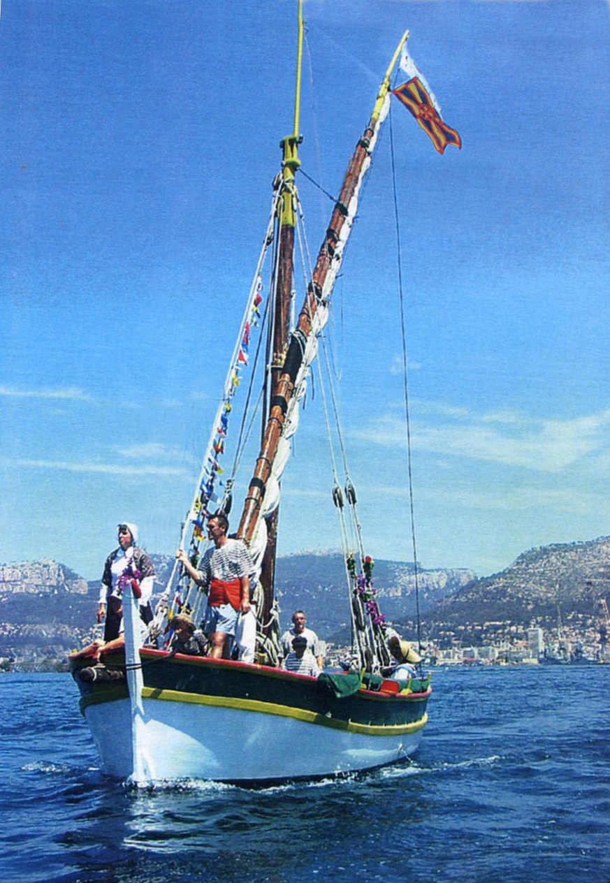 Meltenian sailship "Aptenodytes forsteri"